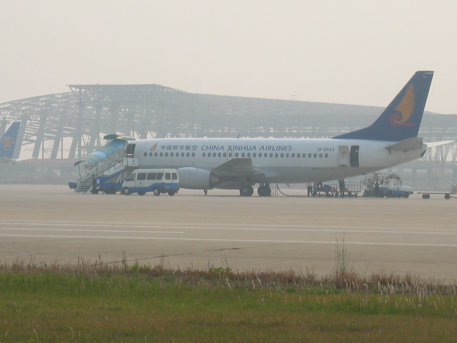 China Xinhua Airlines Boeing 737 at Wuhan Airport. Photo taken at Wuhan Airport by User Adz on 13 December 2006. Source: Own work.